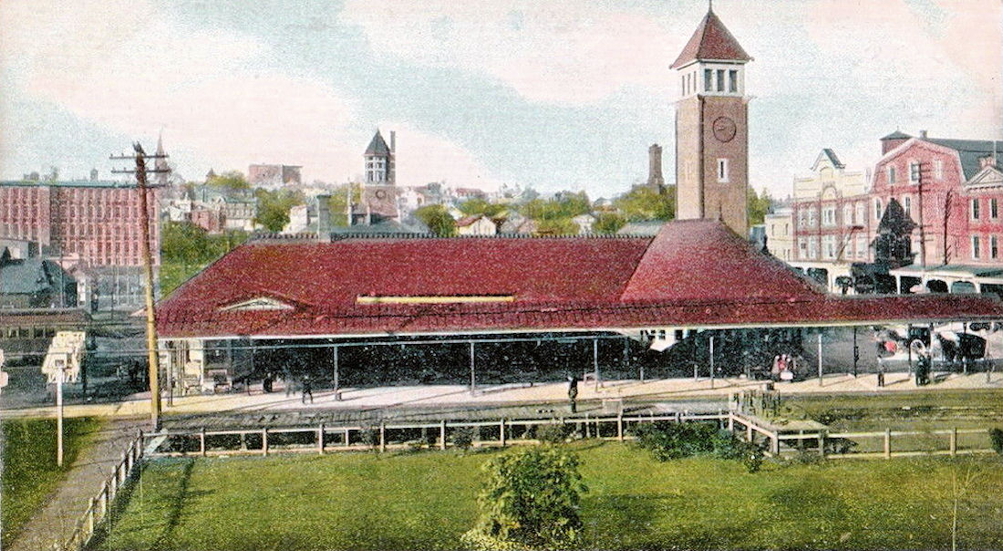 1901 postcard photo of the Central Railroad of New Jersey/Reading Railroad Allentown Terminal Railroad Station looking west. In the background of the image is the Lehigh Valley Railroad Station and the Allentown skyline.